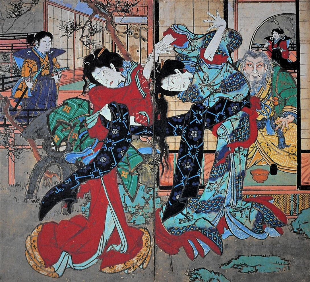 Tosa Scenes of Kabuki by Ekin, Ekin Museum, Konan, Kochi, Japan